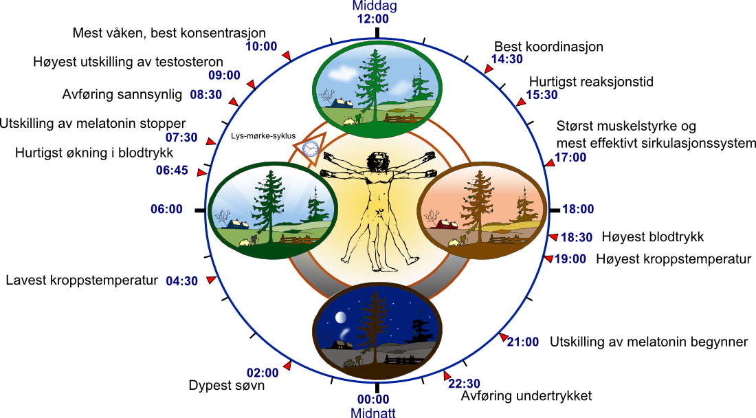 Norwegian version of Image:Biological clock human.PNG, derived from Image:Biological clock human.svg